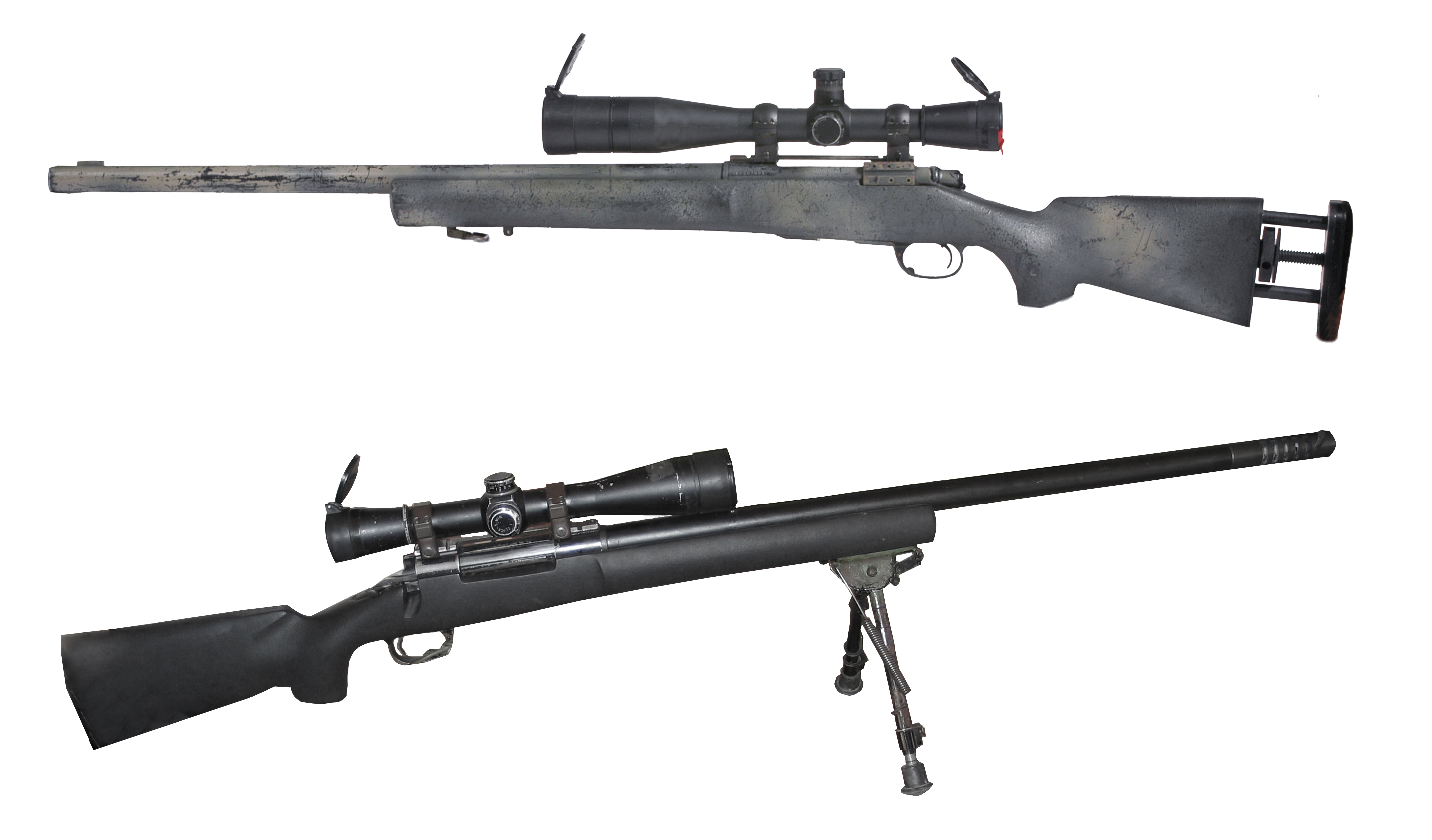 M24 Sniper Weapon System M24 Rifle Primary function: Anti-personnel. Length: 1092 mm (43 in.) Caliber: 7.62x51 mm NATO. Maximum effective range: 800 meters. Accuracy: 0.5 MOA (with IMI 118LR 175gr Match), 0.35 MOA (from benchrest). Design and production: Remington Arms. Primary users: US Army and Israel Defense Forces.